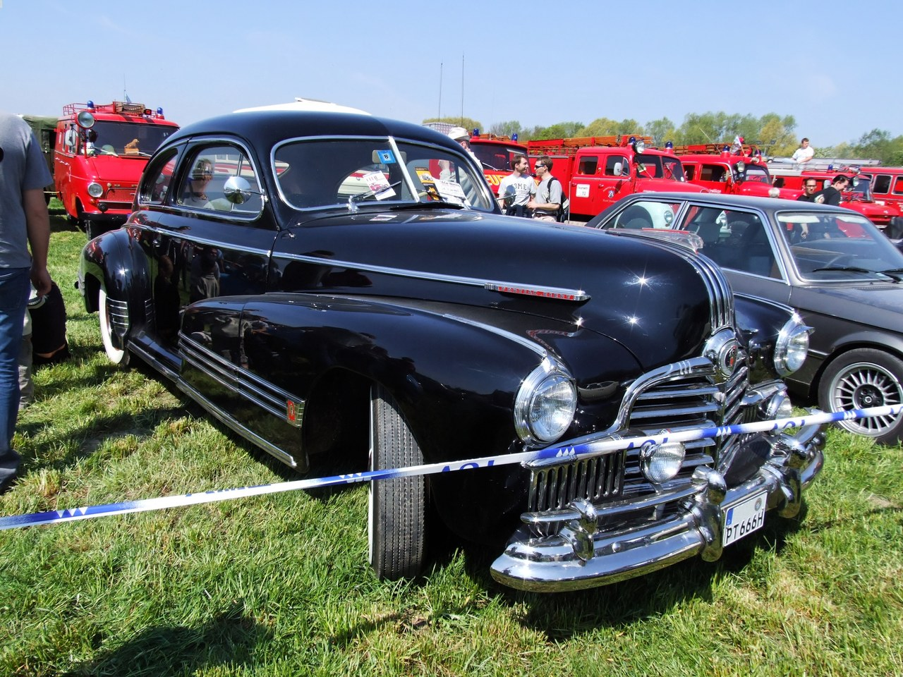 1942 or 1946 Pontiac Torpedo Eight Quelle: selbst fotografiert, 04/2007 Fotograf: Späth Chr.